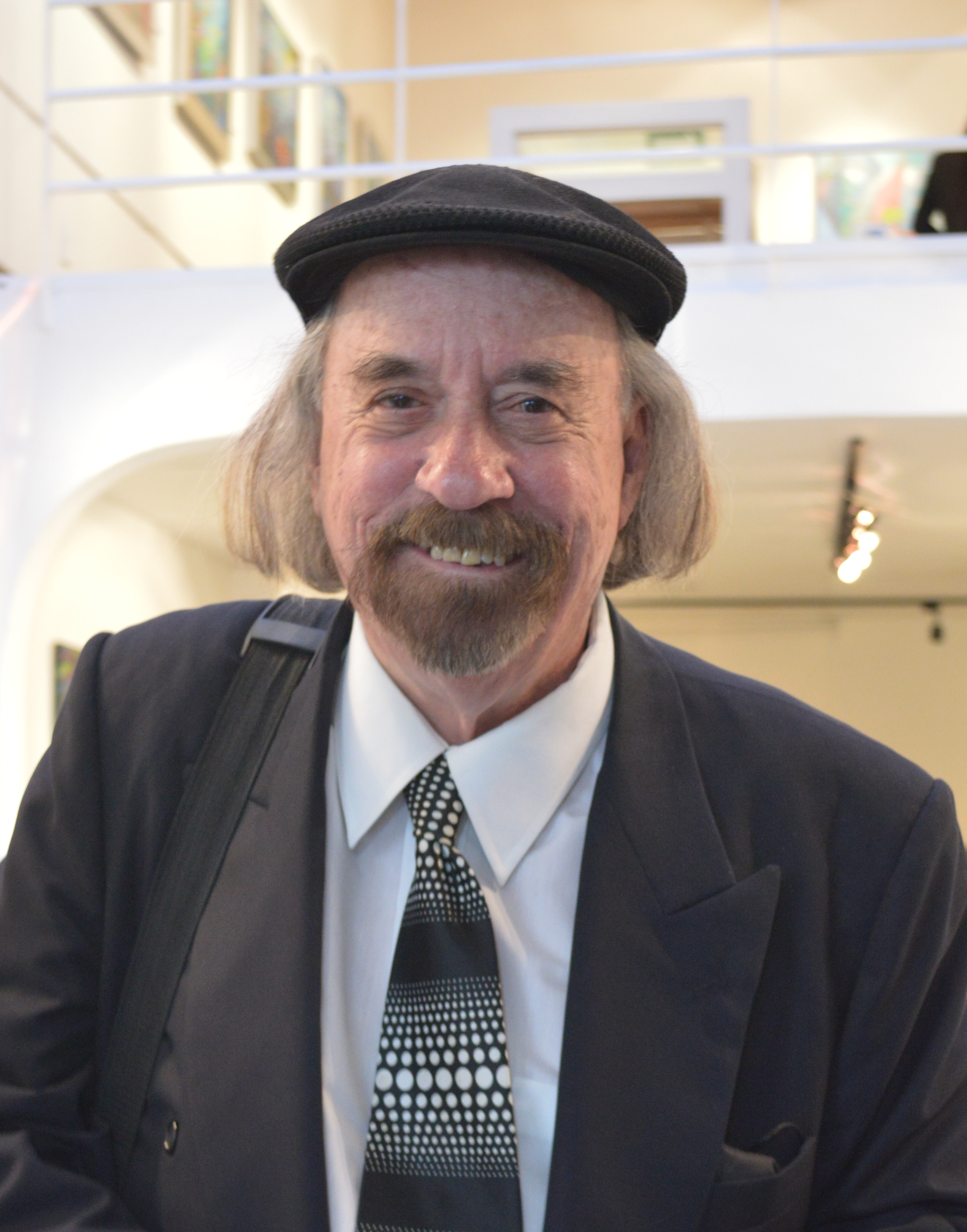 Mario Gallardo at a showing of his exhibition Macrocosmismo at the Salón de la Plastica Mexicana in Mexico City